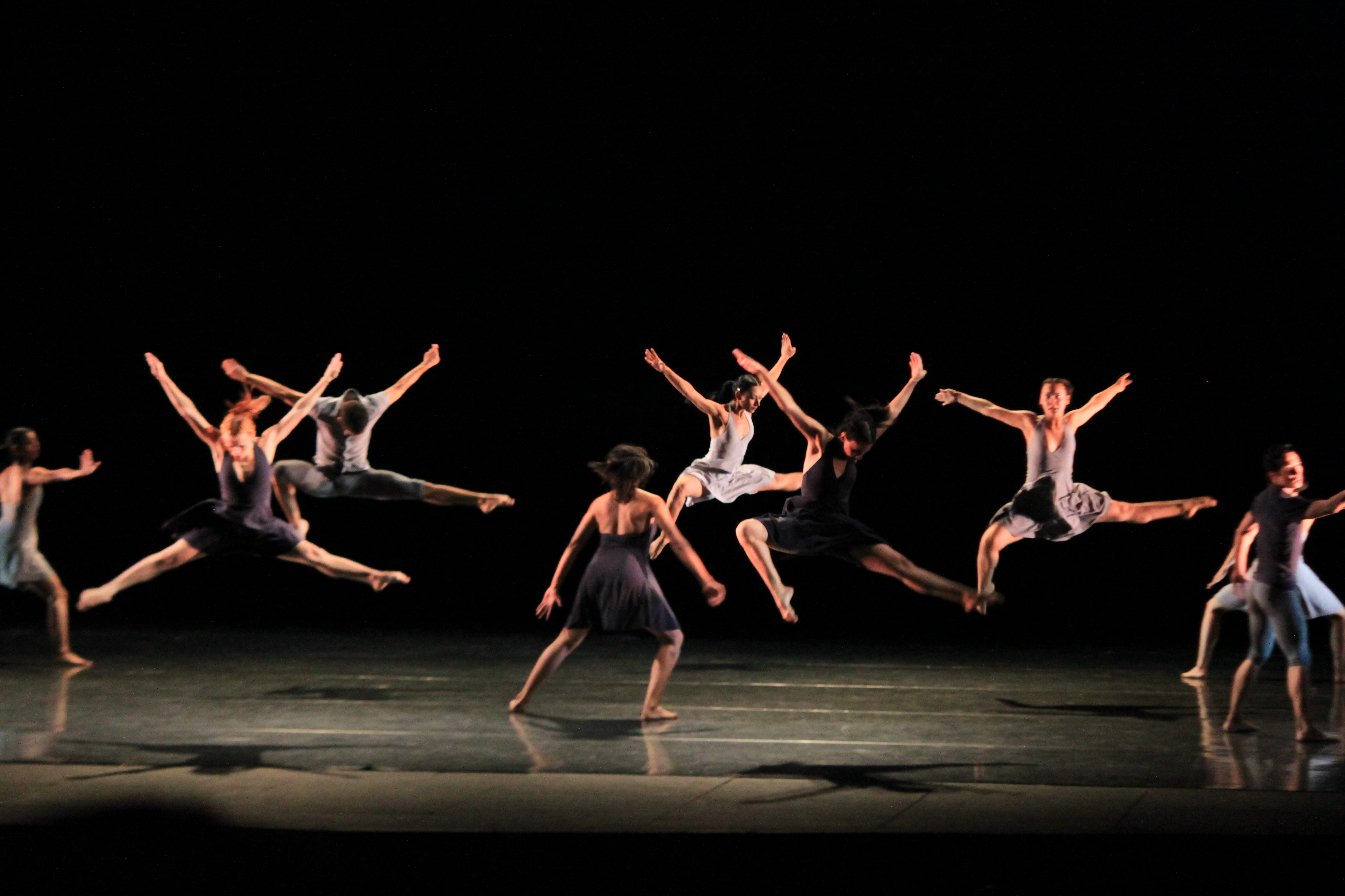 Dancers on the stage leaping in the middle of the dance.